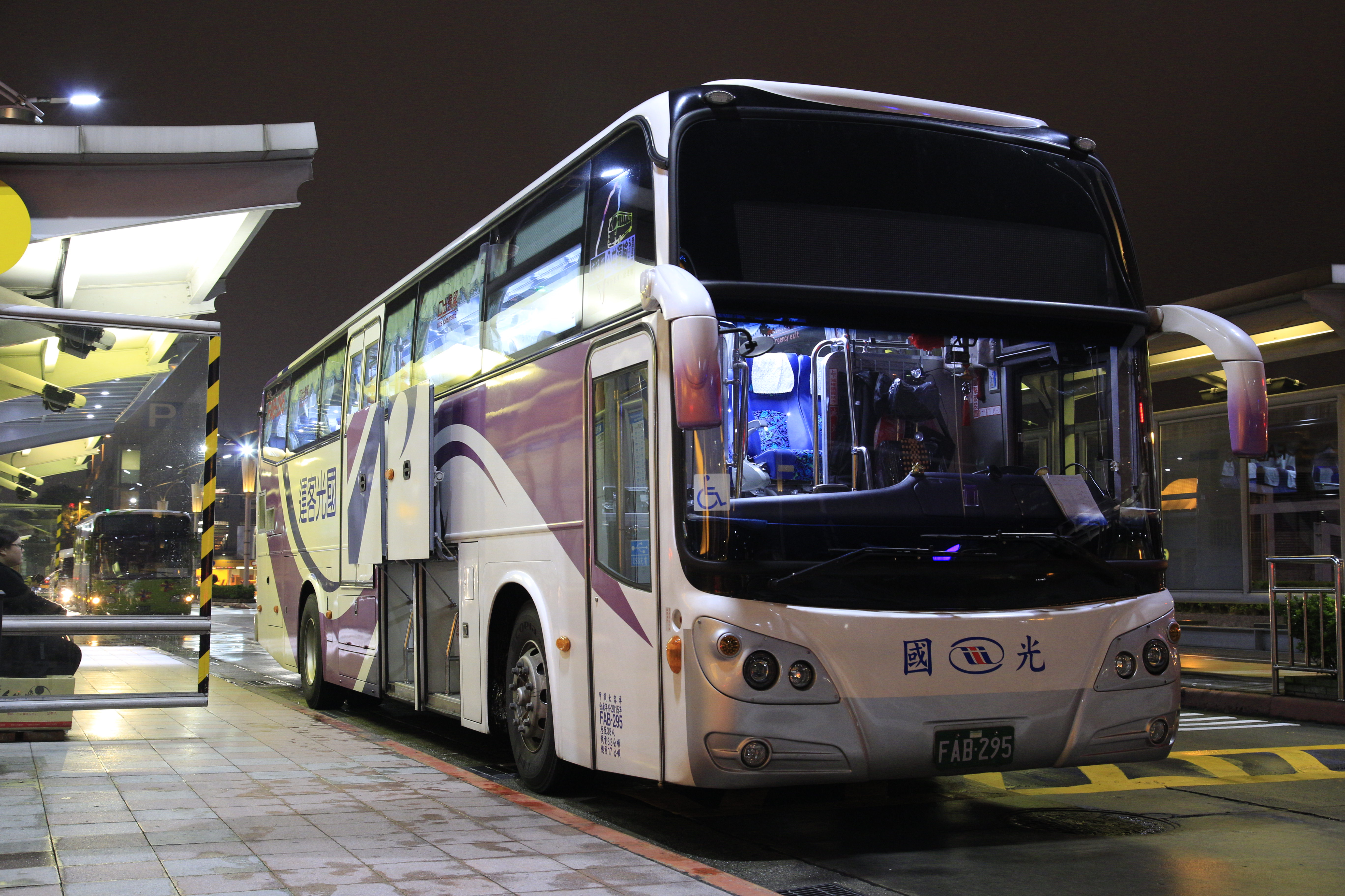 Kuo-Kuang bus Daewoo BH115K FAB-295